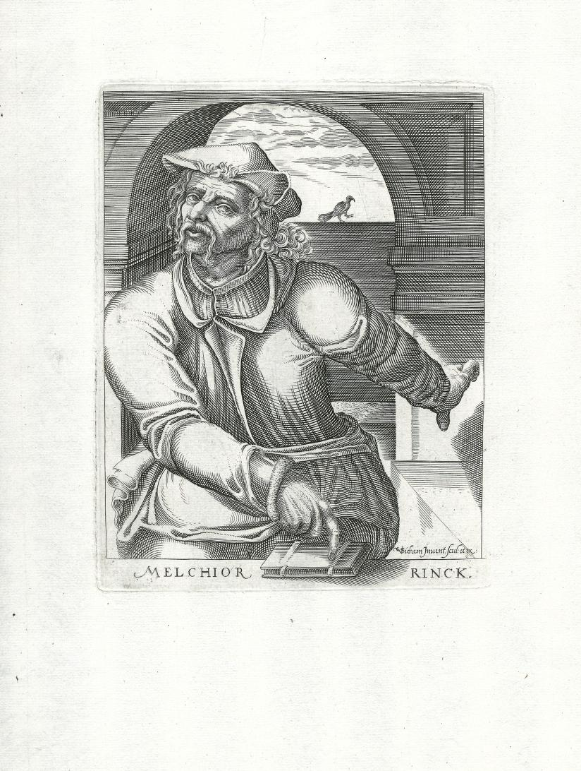 German Anabaptist and Theologian Melchior Rinck (1493-1545); Gravure by Christoffel van Sichem